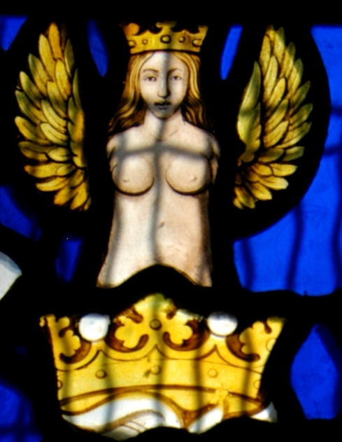 Photograph (by me, R. de Salis, Rodolph (talk) 00:37, 6 October 2015 (UTC)) of Bellona, part of a circa 1845 stained-glass window by Thomas Willement for Captain the Hon. Charles Louis Maximilian Fane De Salis (died 1845).